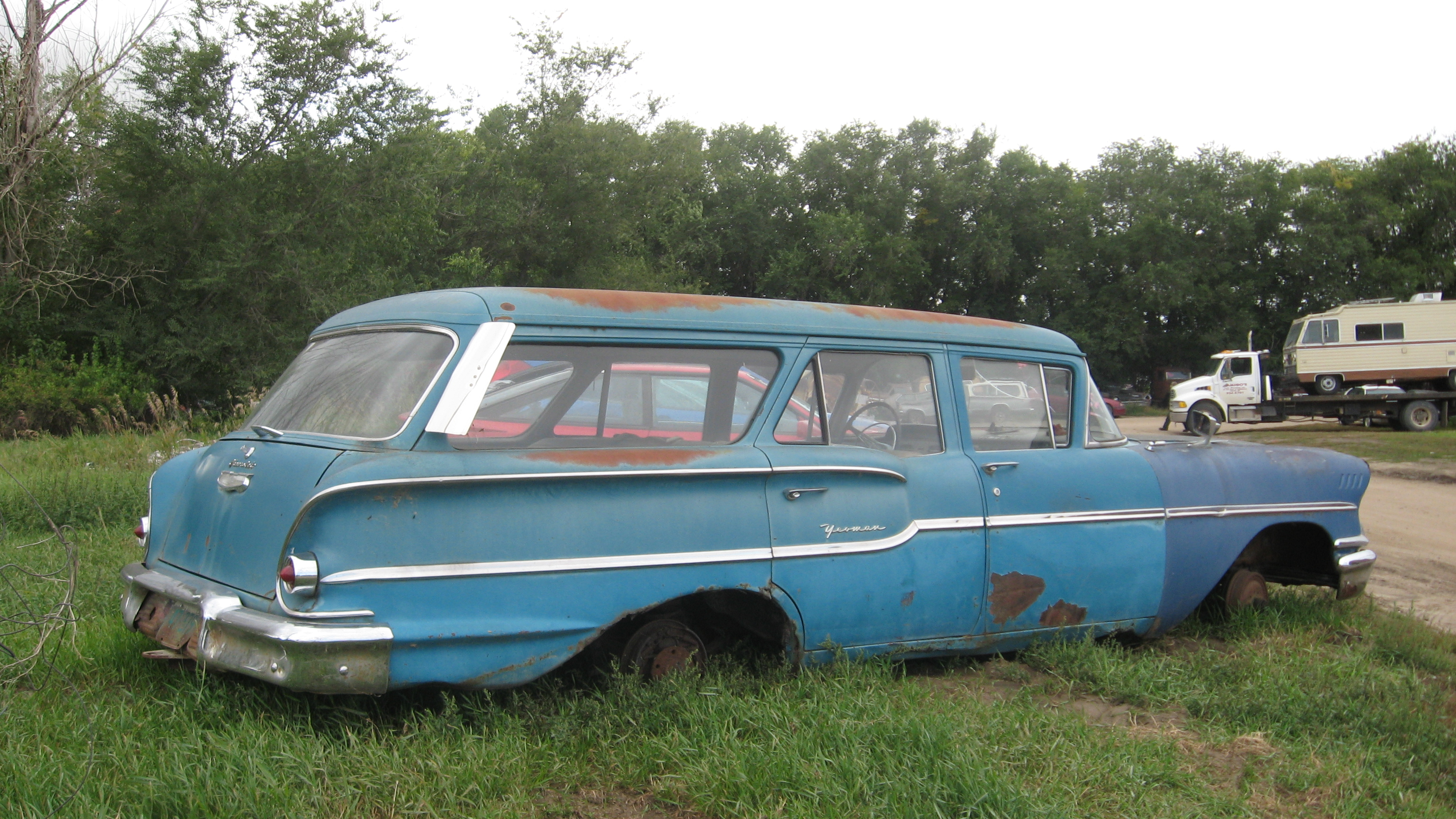 1958 Chevrolet Del Ray Yeoman wagon at Amigo's Wrecking, Clavet, SK